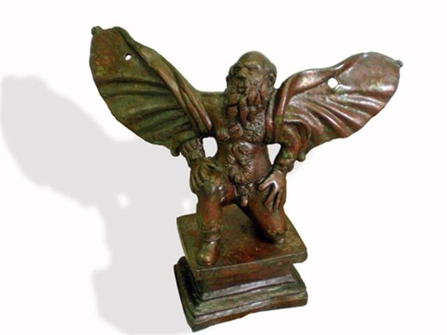 Bronze sculpture of Daedalus (Dedal) from 3rd century found on Plaošnik, Republic of Macedonia